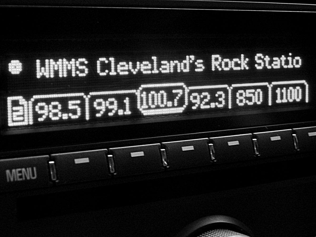 FM radio broadcast of WMMS/Cleveland -- Radio Data System (RDS) text displayed on car radio